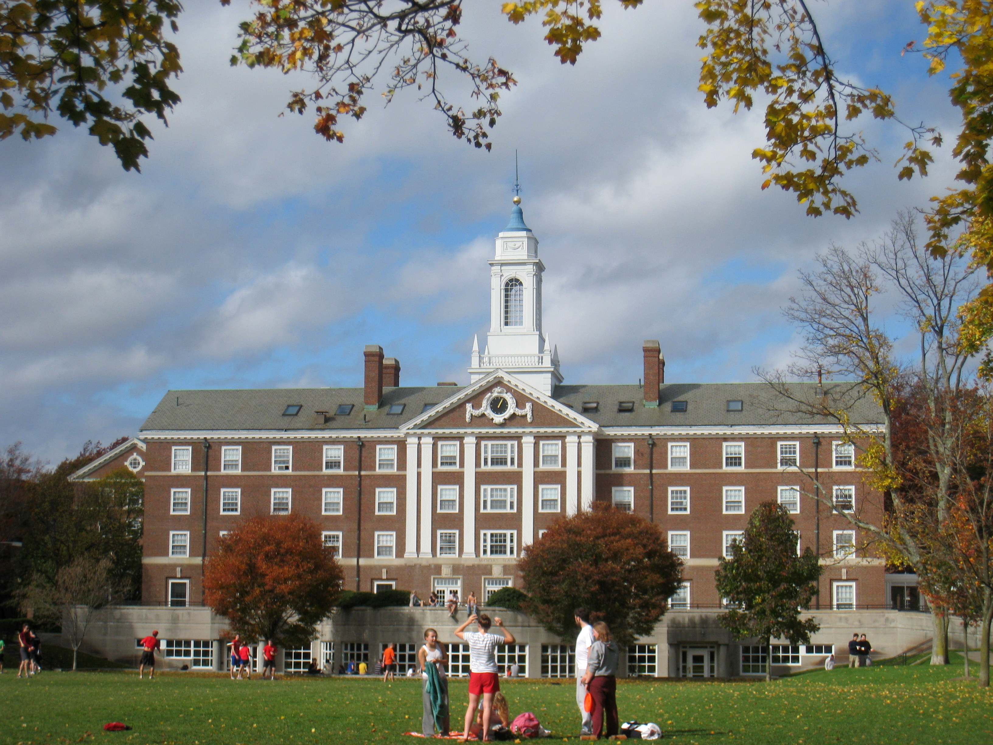 Moors Hall, Radcliffe Quadrangle, Harvard University, Cambridge, Massachusetts, USA.